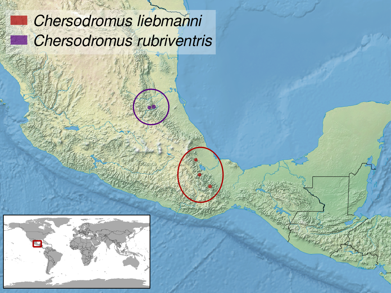 geographic distribution of the genus Chersodromus (Native: Mexico). Included species for RDB: Chersodromus liebmanni and Chersodromus rubriventris.